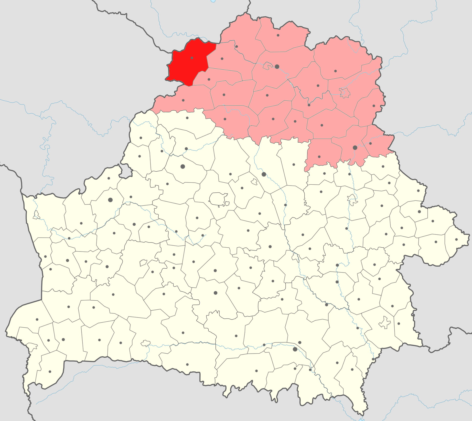 Map of Braslaŭski raion (in red) with Viciebskaja voblast' (in light red) on the map of Belarus.